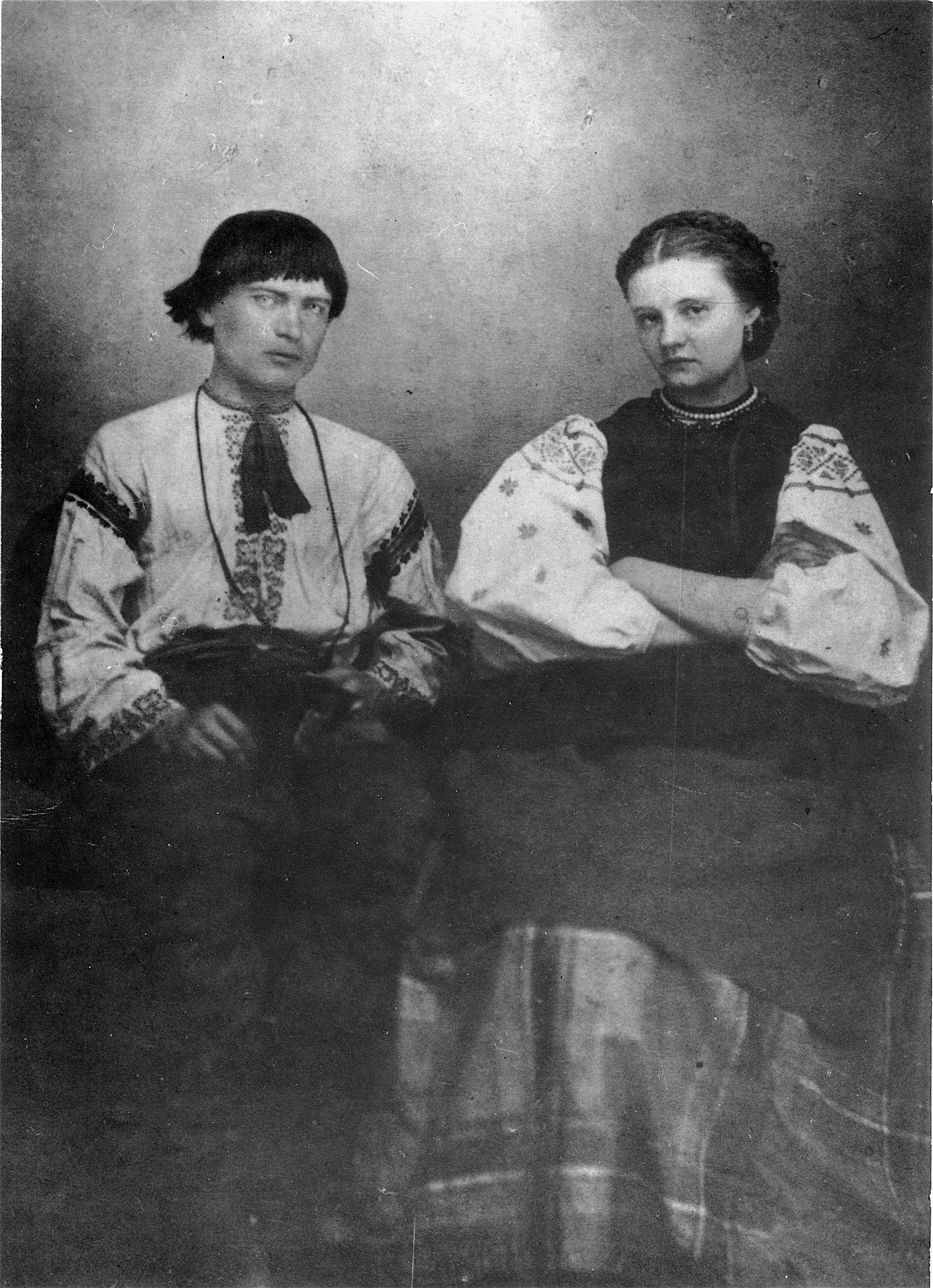 Ukrainian historian Volodymyr B. Antonovych and his wife Varvara in Ukrainian folk dresses. Between 1850 and 1860.